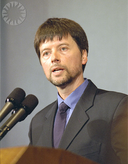 The documentary film maker Ken Burns at the National Press Club (Smithsonian Institution)